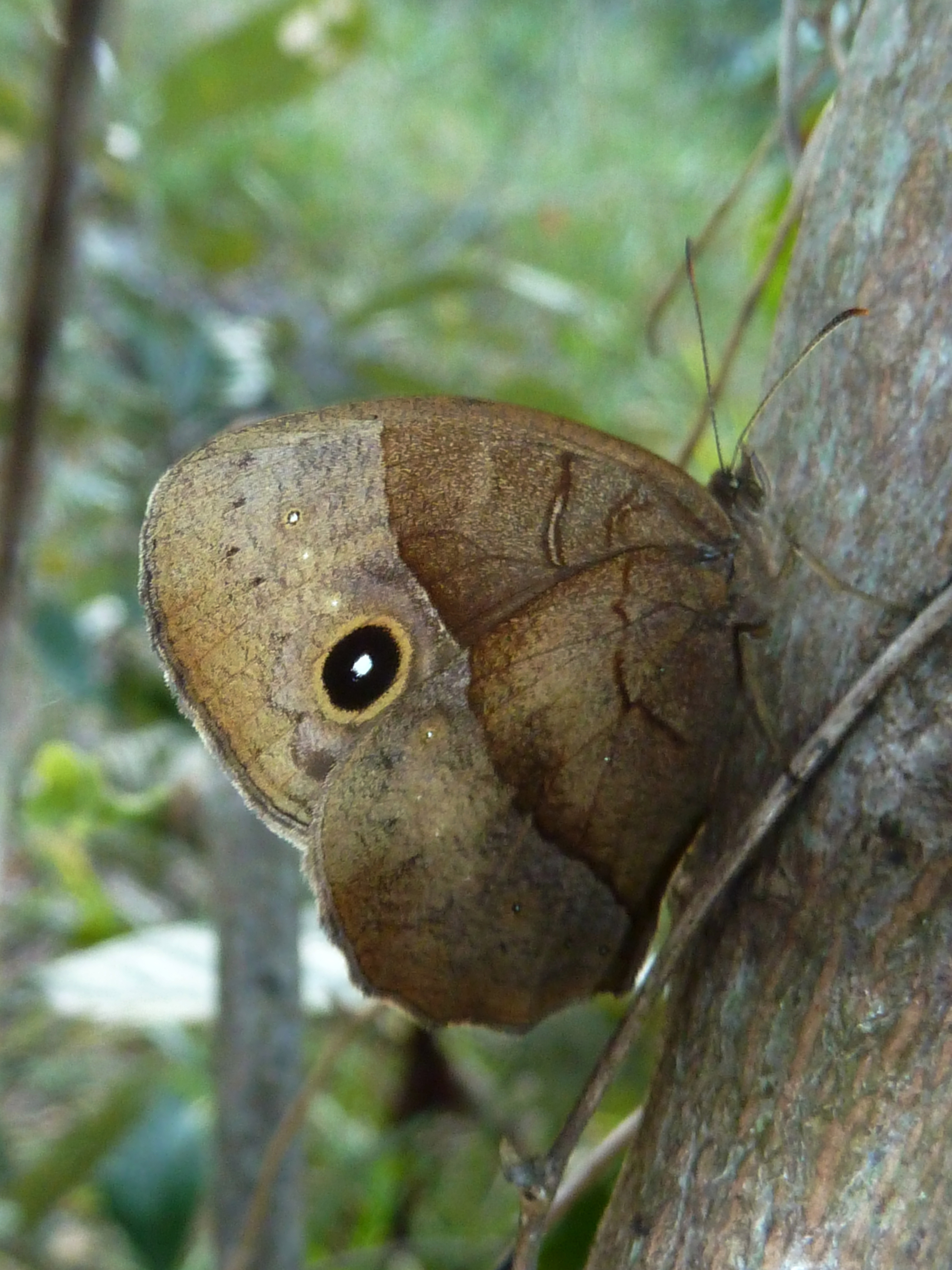 Dry season form (f. evenus) of the Common bush brown beside the Molweni stream in Krantzkloof Nature Reserve. The large eyespot and pale brown rather than swarthy colour suggests a female.